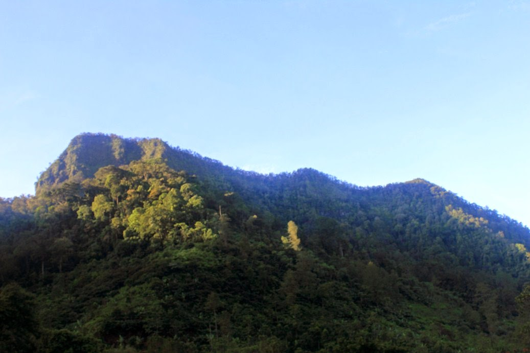 Sawal Mountain